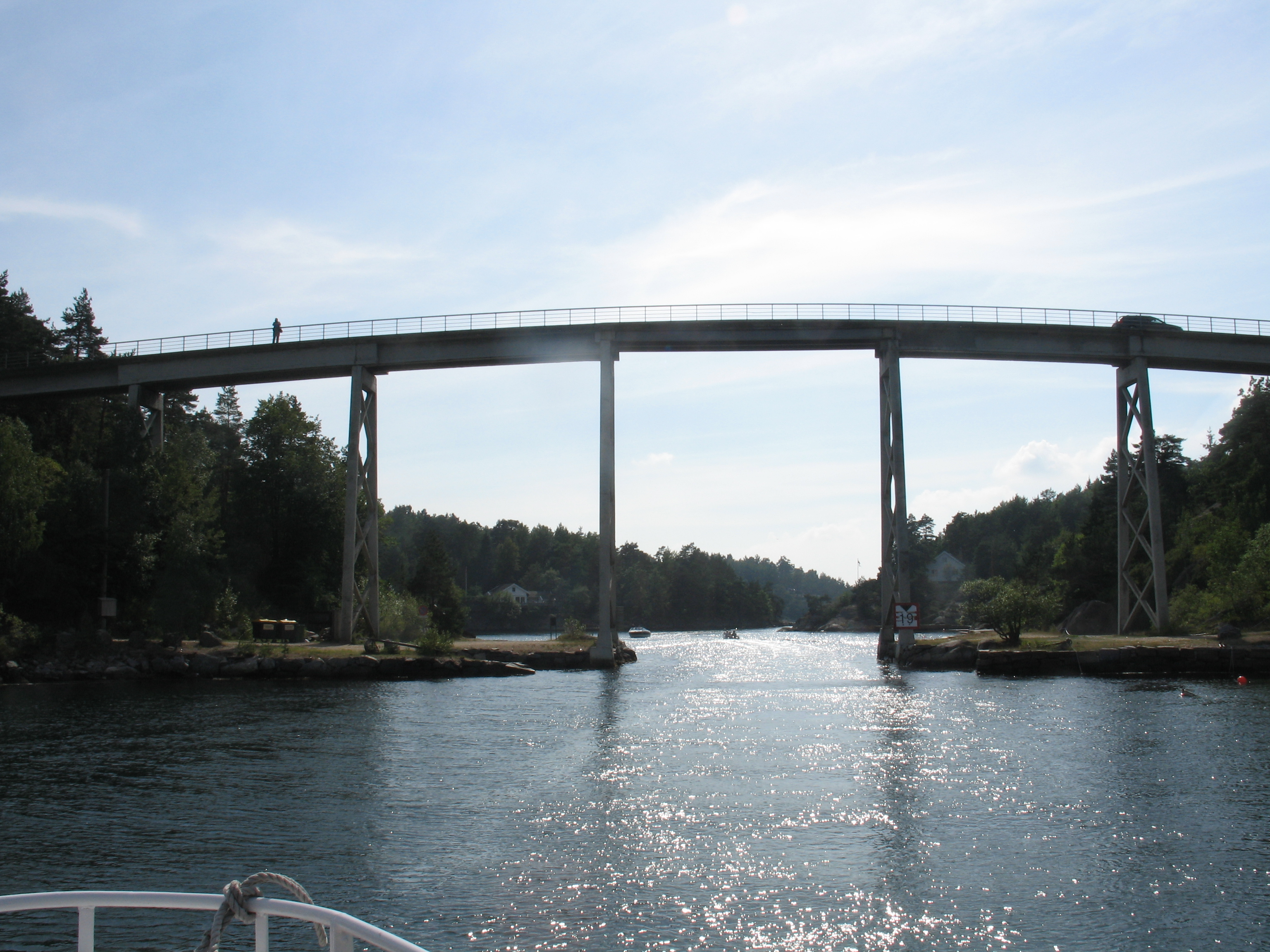 Brigde to Justøy, Lillesand, Norway.